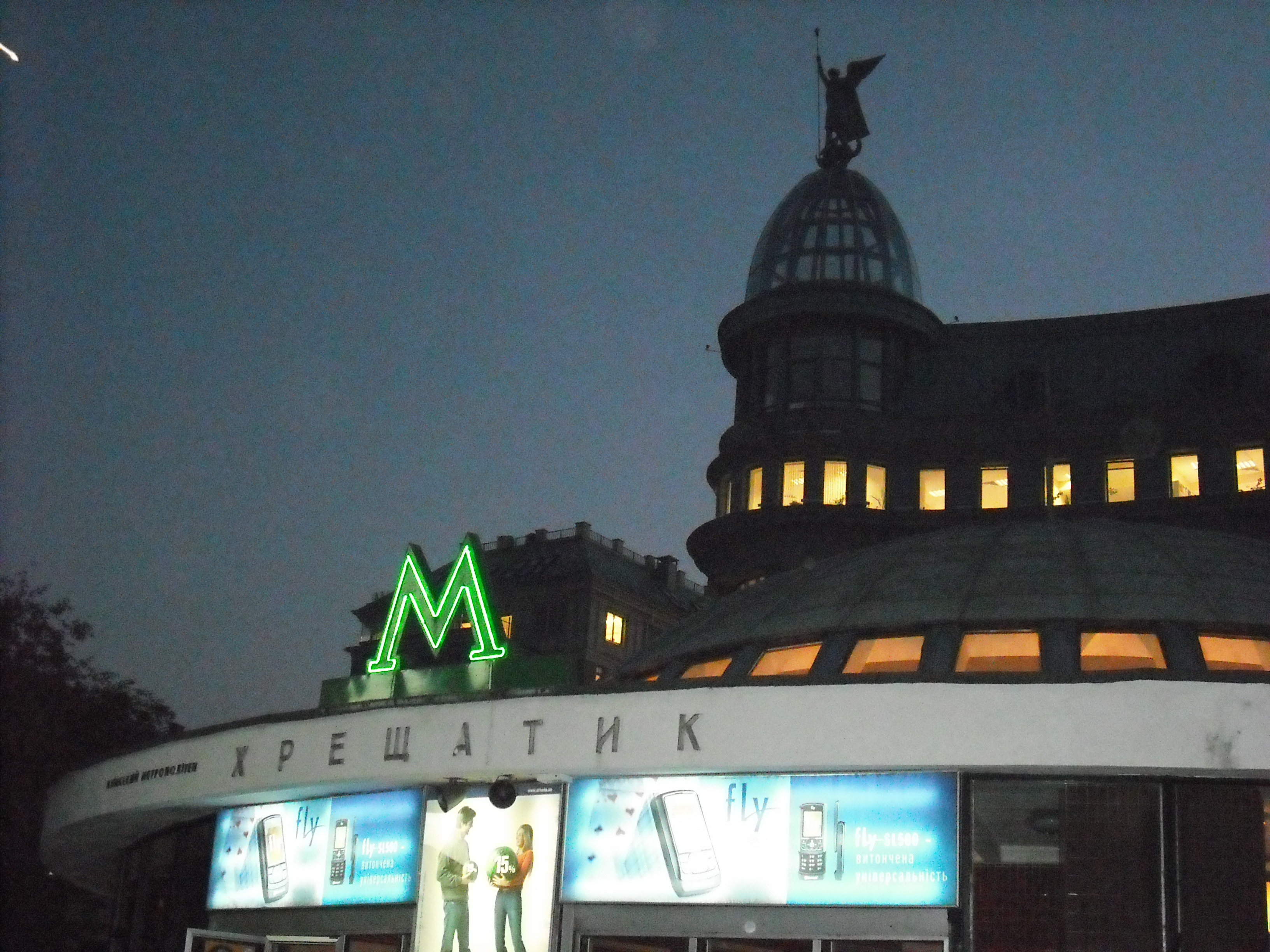 Kiev - Khreschatyk Metro Station - outside